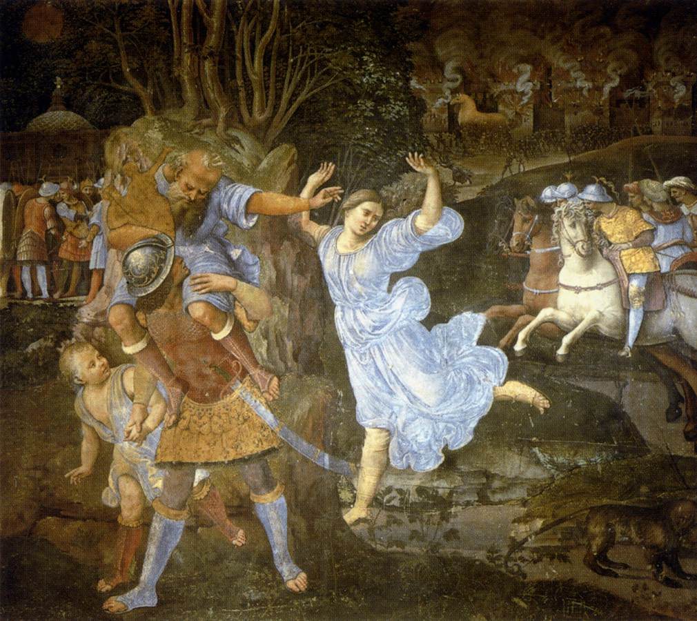 Motif of the Greek mythology (ancient)